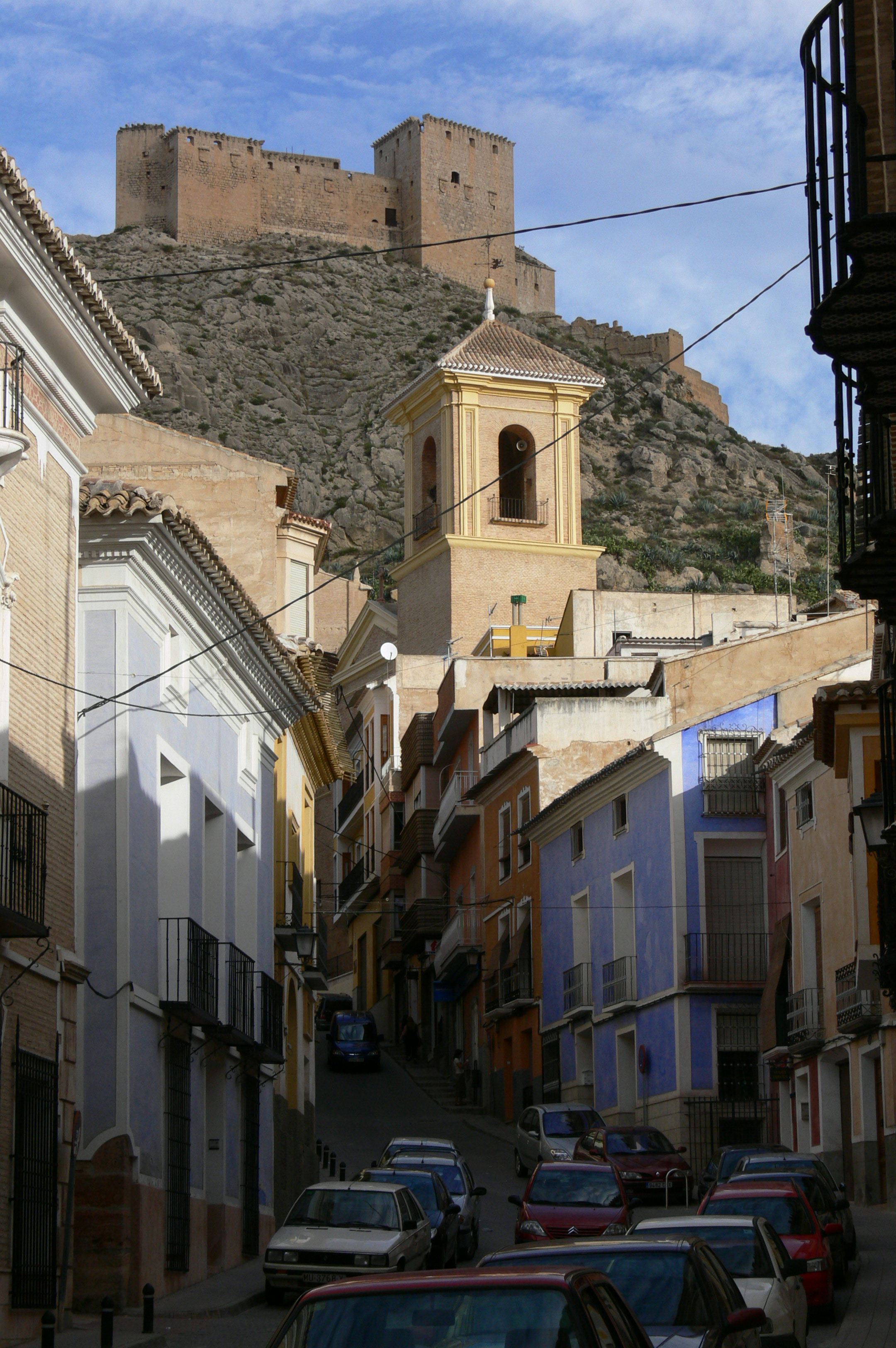 Caño´s Street